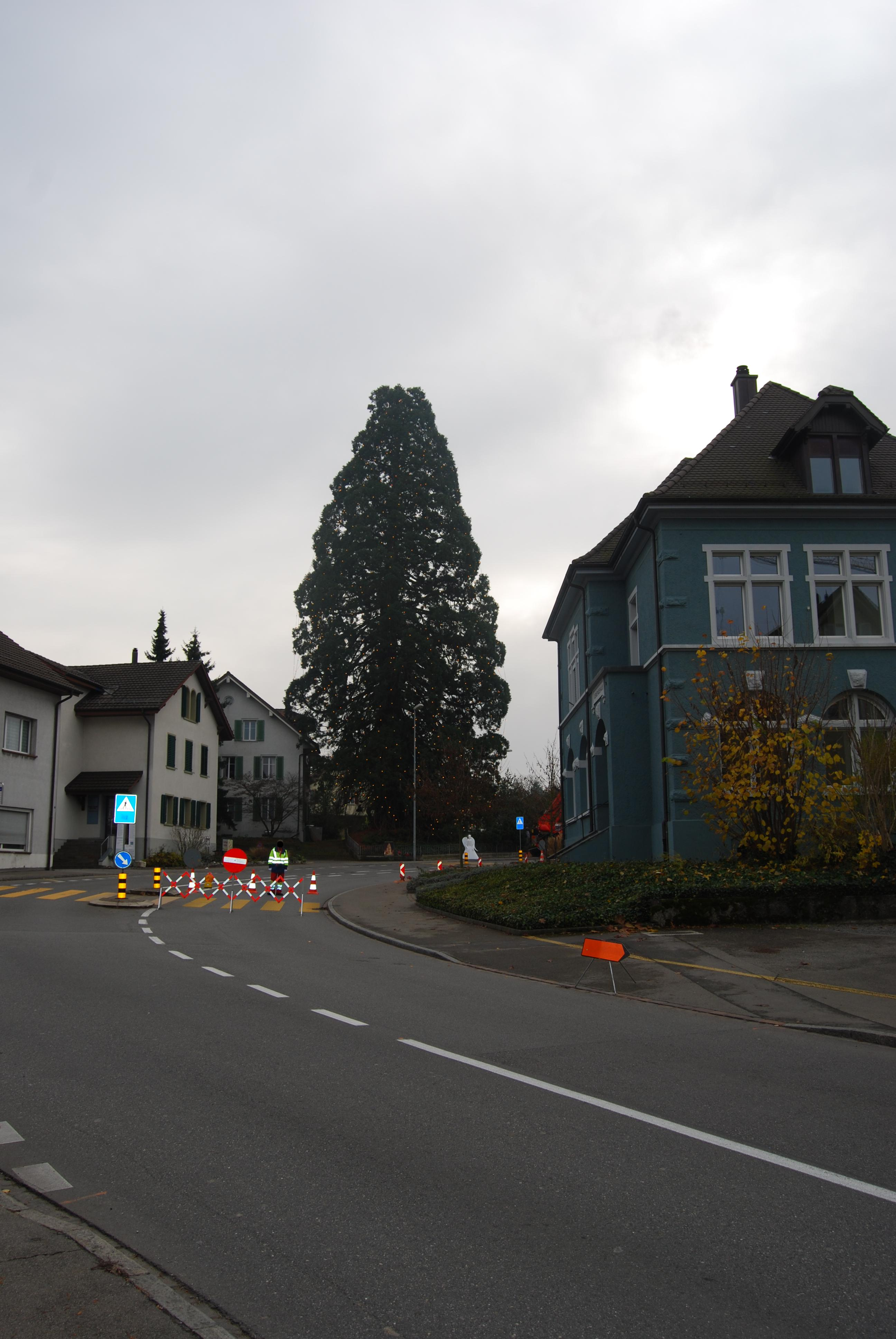 Oberrohrdorf, canton of Aargau, SwitzerlandEsperanto: Oberrohrdorf, Kantono Argovio, Svislando